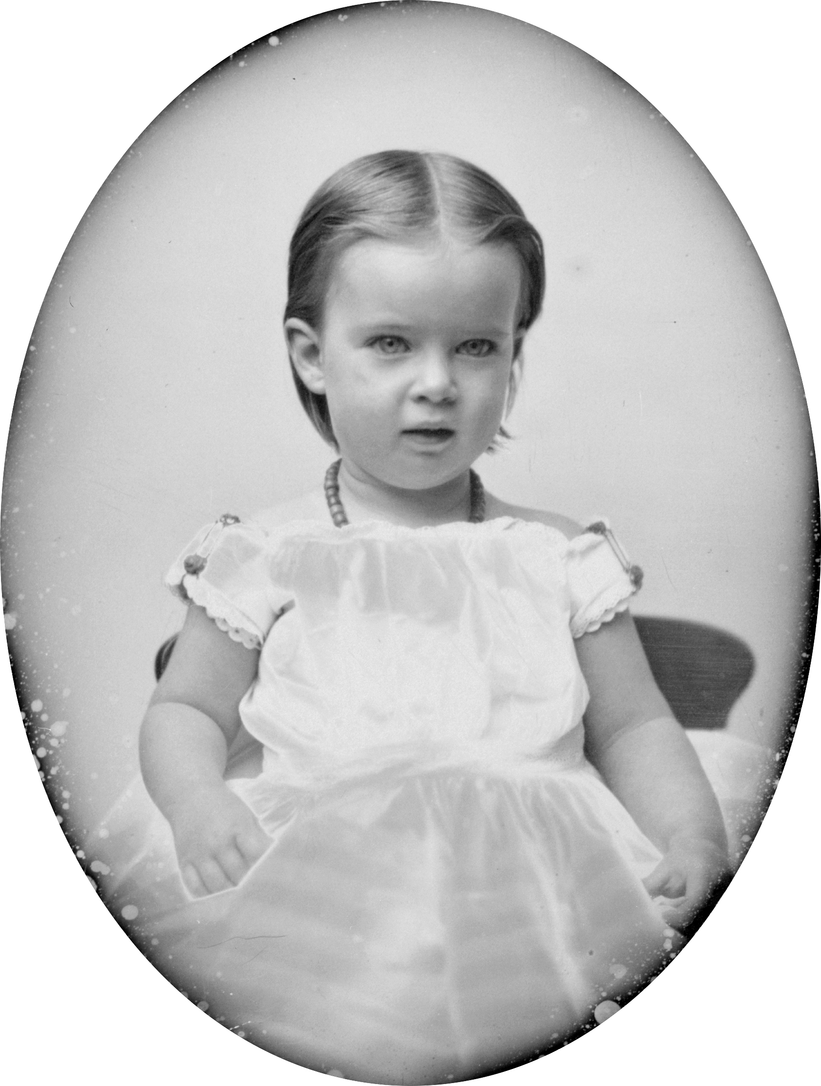 Mabel Hubbard Gardiner Bell as a girl, half-length portrait, facing front. Sixth plate daguerreotype.